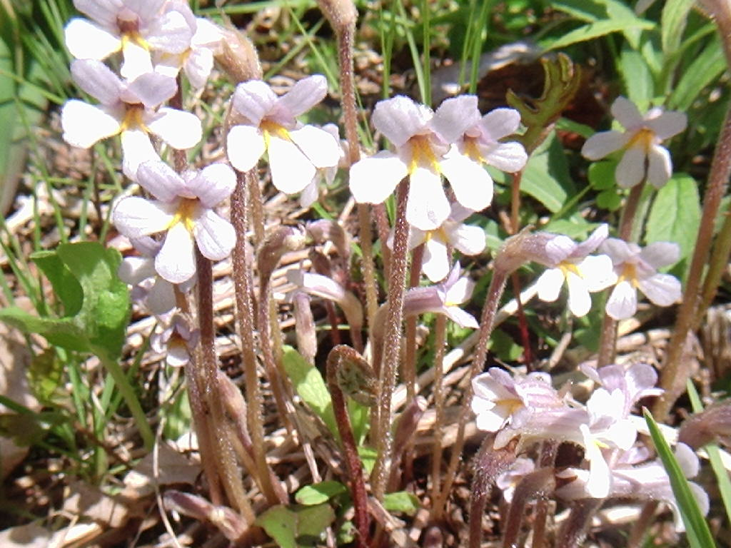 Parasitic Broom-Rape flowers. (Described as Naked broomrape (Orobanche uniflora) in Wikipedia article.)